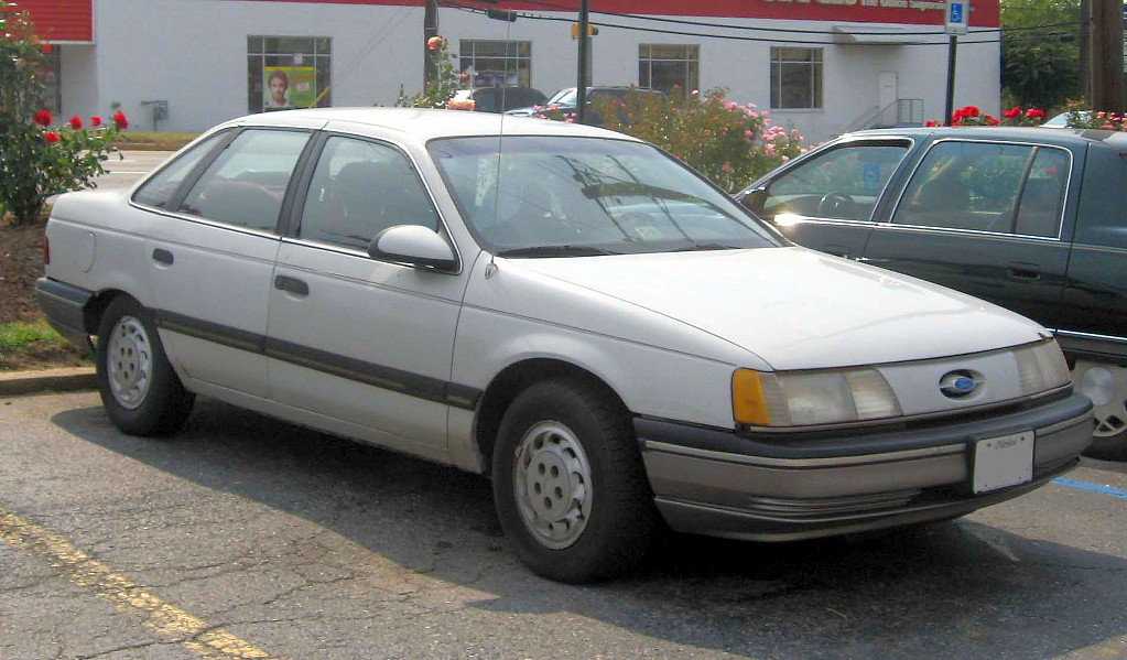 1989-1991 Ford Taurus photographed in USA.